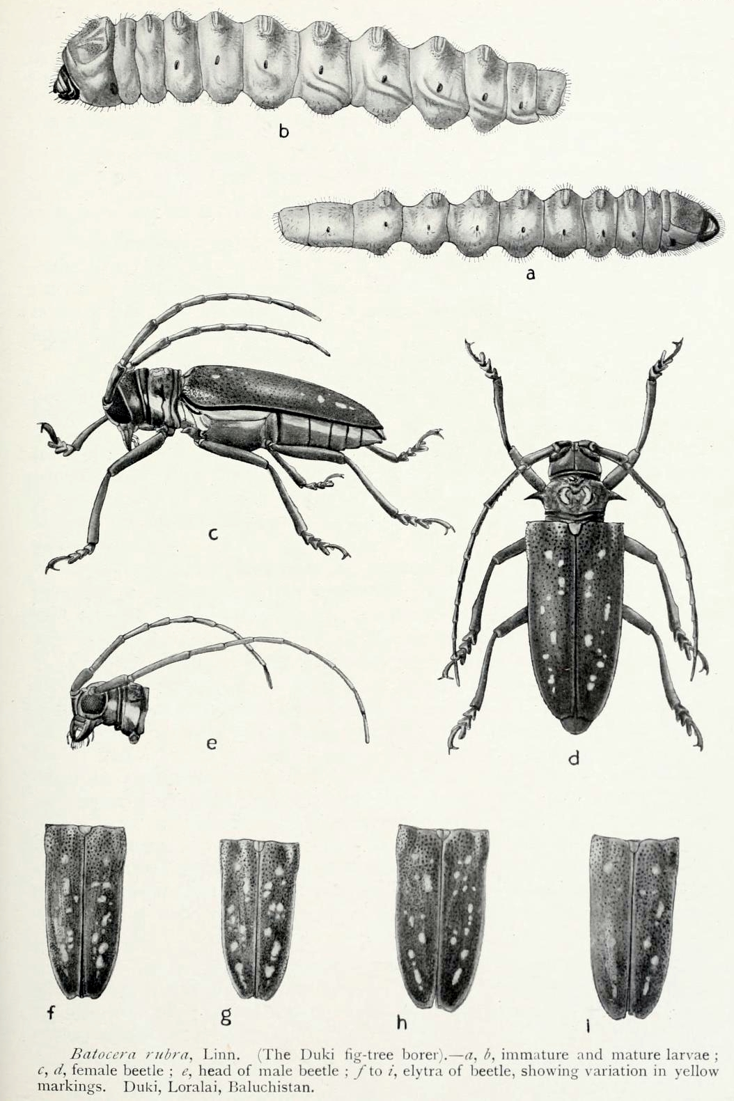 Batocera rufomaculata (The Duki fig-tree borer). — a, b, immature and mature larvae; c, d, female beetle; e, head of male beetle; f to i, elytra of beetle, showing variation in yellow markings. Duki, Loralai, Baluchistan.